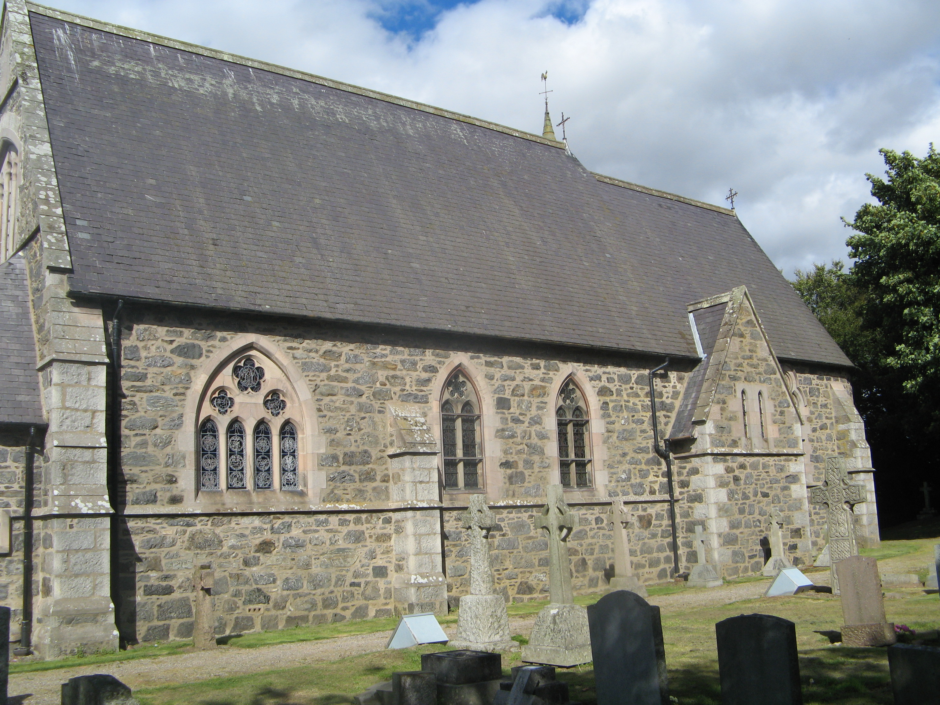 St. Mary on the Rock Episcopal Church, Ellon, category A listed building, side view